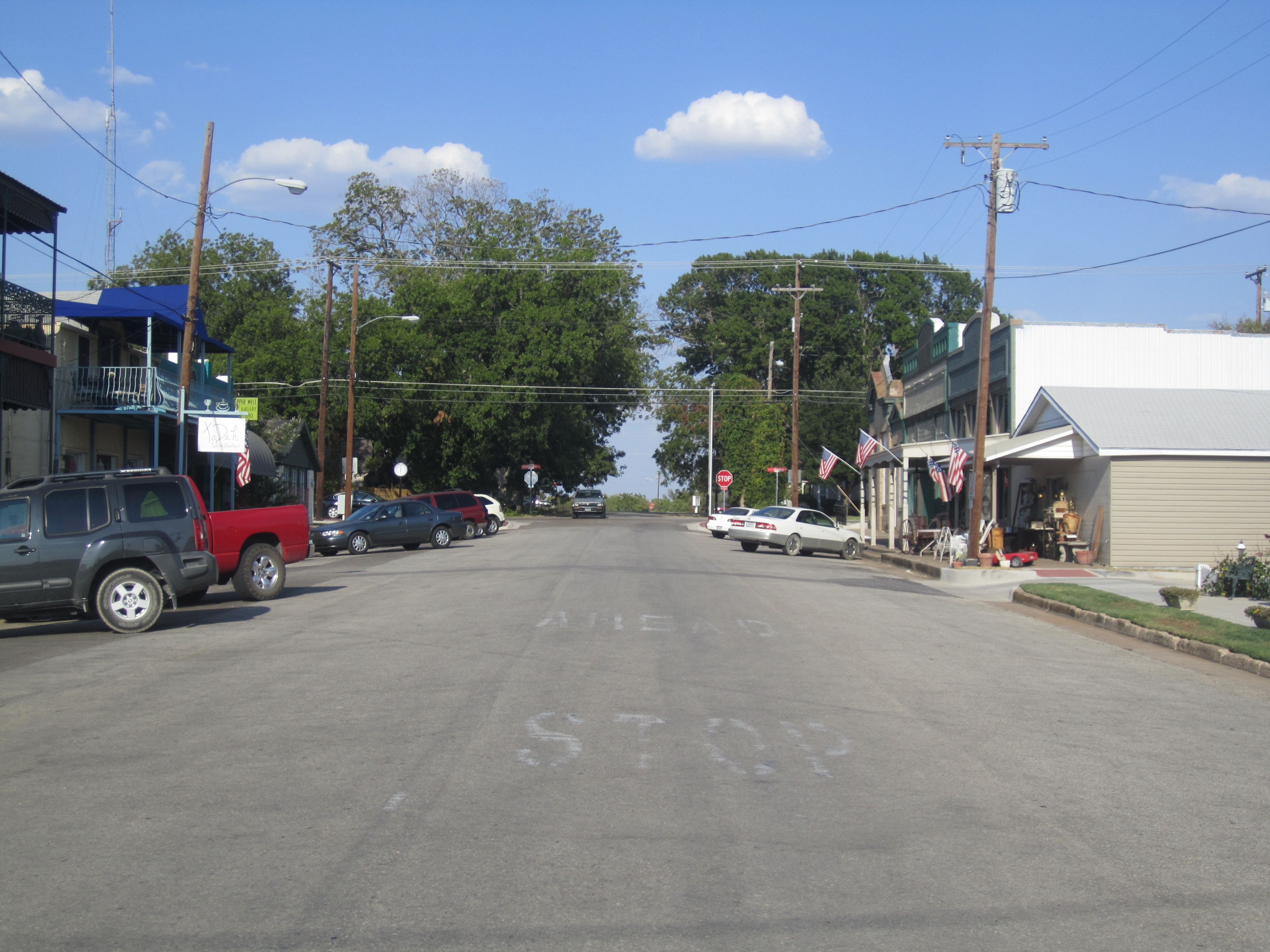 I took photo with Canon camera of downtown Lorena, TX.